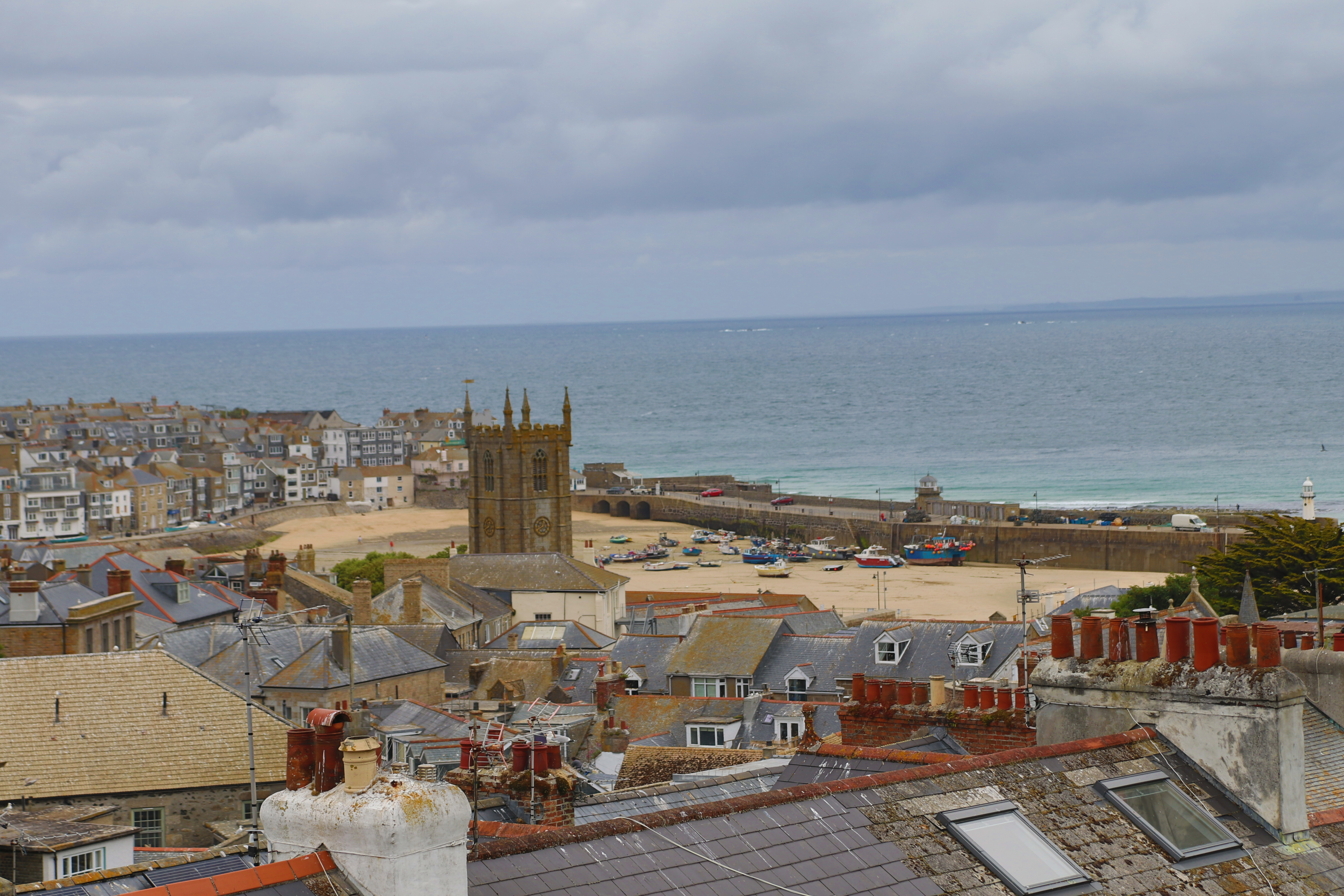 St Ives Cornwall This photo was taken by Tom Corser and is © Tom Corser 2020. This photo may be reproduced under the terms of the Creative Commons Attribution-ShareAlike 3.0 Unported Licence [1] (unless otherwise stated). Please credit this photo Tom Corser If using this photo, make sure you properly credit and specify the licence that this photo is licensed under. (E.g. "Photo by Tom Corser Licensed under Creative Commons Attribution-ShareAlike 3.0 Unported Licence: If you would like to use this photo under a different license, please contact me via or . Attribution: Tom Corser